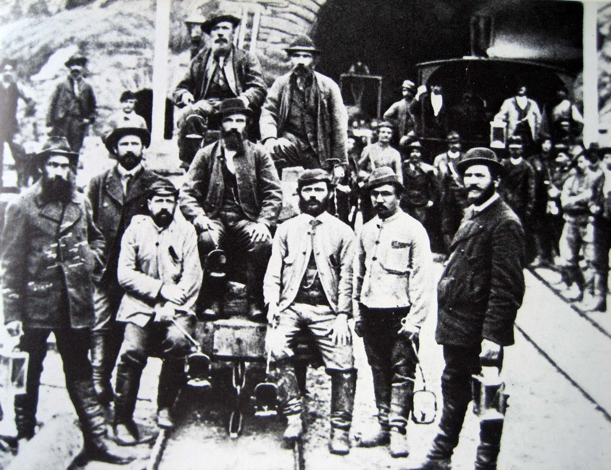 Bauarbeiter in Airolo um 1880. upload by Adrian Michael.